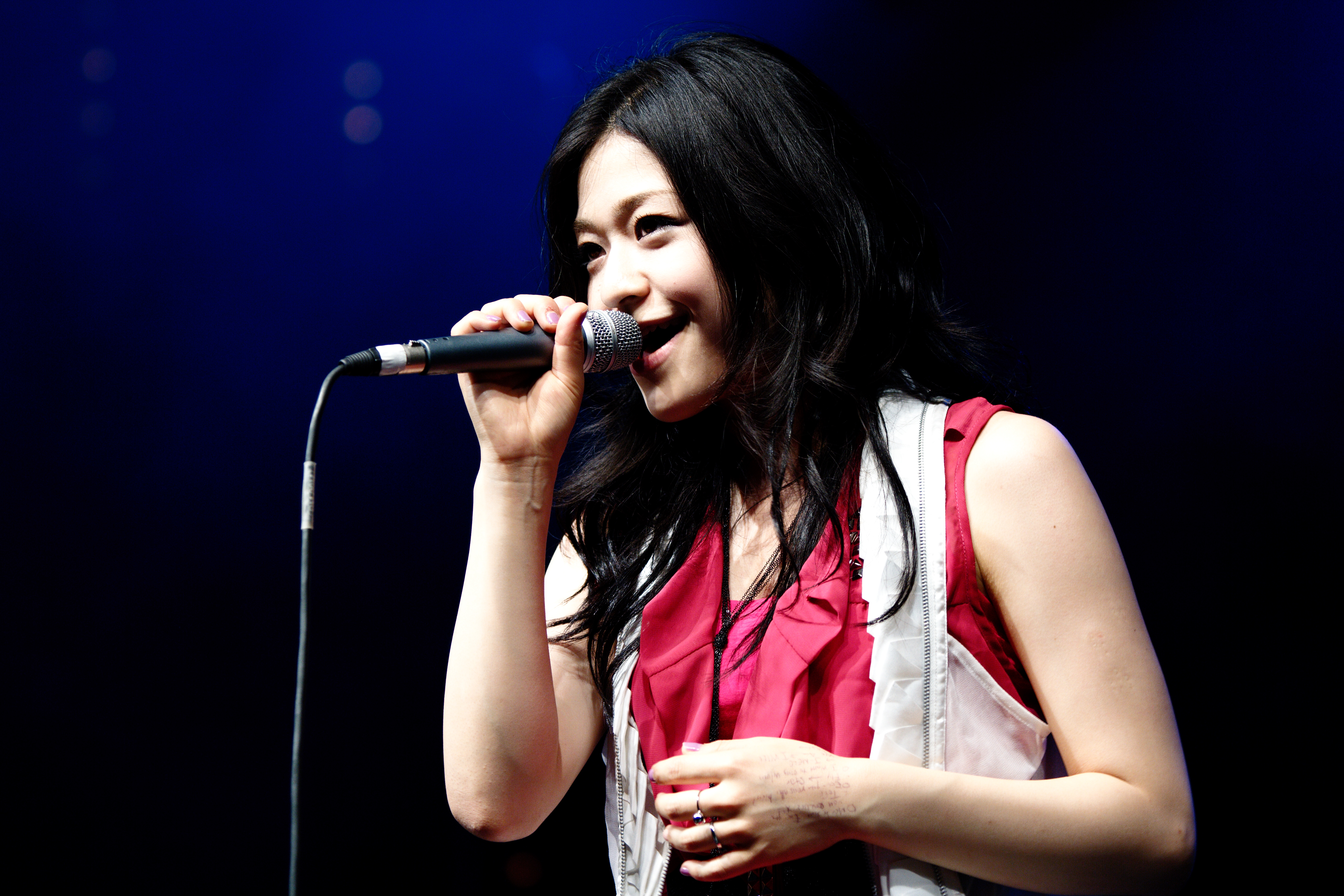 Ai Takekawa live at Japan Expo 2010 (Paris, France).